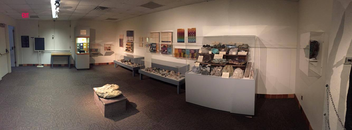 Fossil Exhibit at UNL State Museum